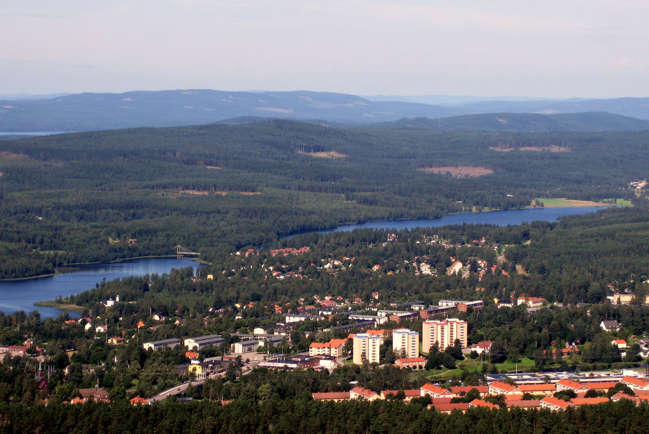 Hagfors